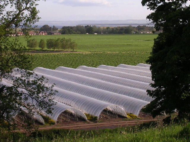 Polytunnels on Balhungie Farm. Polytunnels are an ever increasing feature of the south Angus countryside. Here they are protecting young strawberry plants. The view is taken in the eastern part of the grid box amongst the trees on the ancient cliff line. It looks south towards the Tay estuary and the wooded promontory of Tentsmuir on the south side of the river.